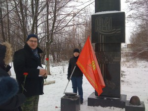 Лобня - Красная Поляна - 2